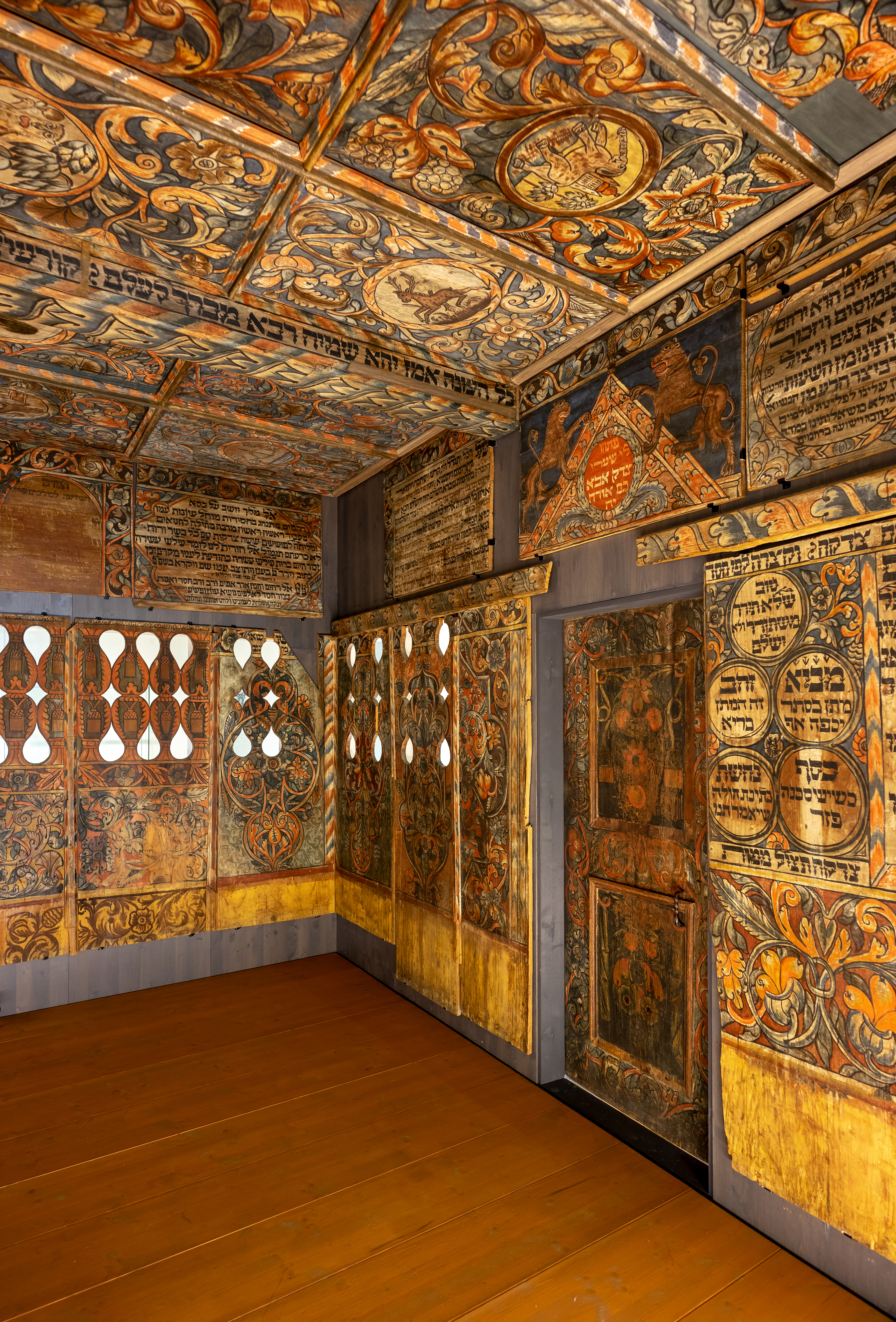 Exhibit in the Hällisch-Fränkisches Museum in Schwäbisch Hall, Germany: The richly ornated panelling of the former synagogue in Unterlimpurg, painted by Eliezer Sussmann in the 18th century.Sorry for the imperfect image quality, but I had to take the photos without using a tripod etc., hence some compromises were necessary.